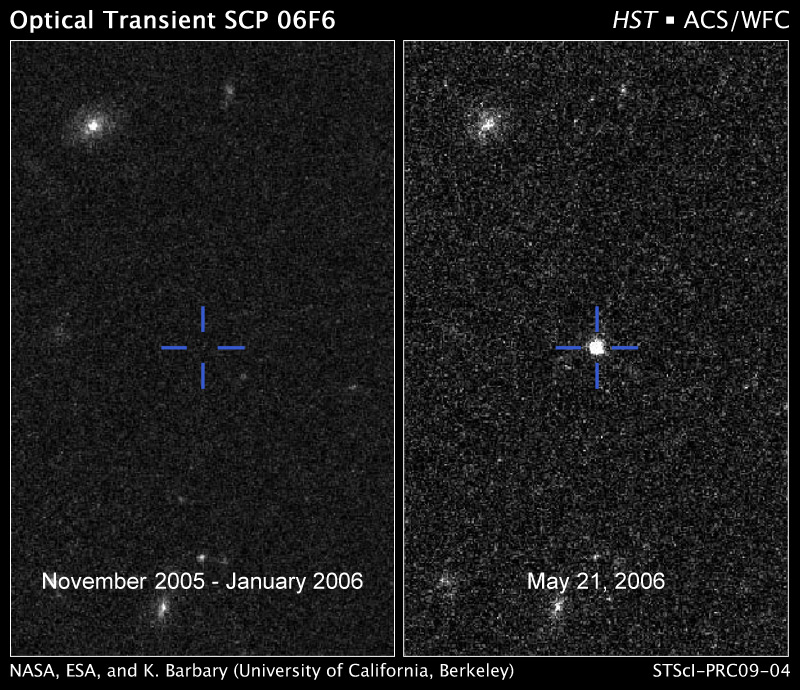 The sudden appearance of the transient "mystery object" SCP 06F6 in Hubble field of view. The lower image represents a zoomed in view.